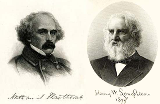 Engravings of Nathaniel Hawthorne (1879) and Henry Wadsworth Longfellow (1880).